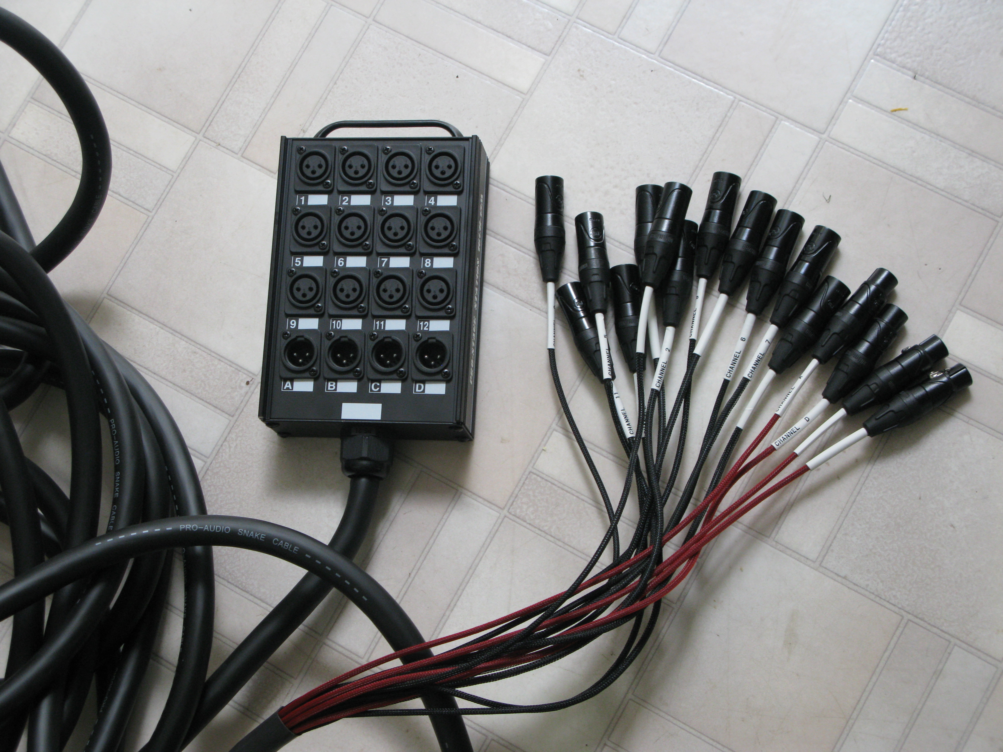 An audio multicore cable (stage snake) with XLR connectors and stage box. Used to simplify cabling from a band on stage back to the audio mixer location. All cables on stage run to the stage box, and then a single thick cable runs out to the mixer.